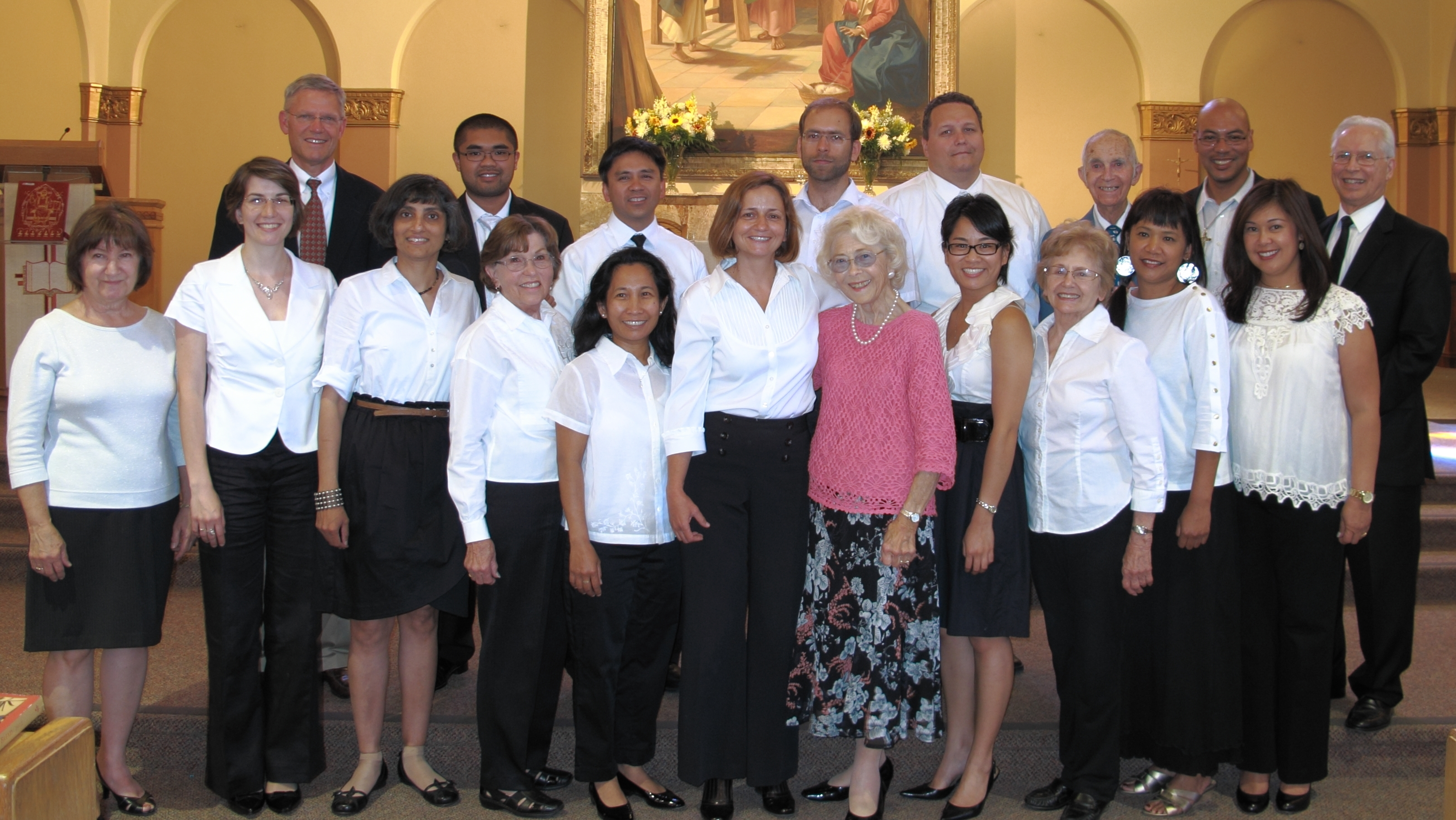 Voices of Praise Choir in June 2012, accompanied by James Welch